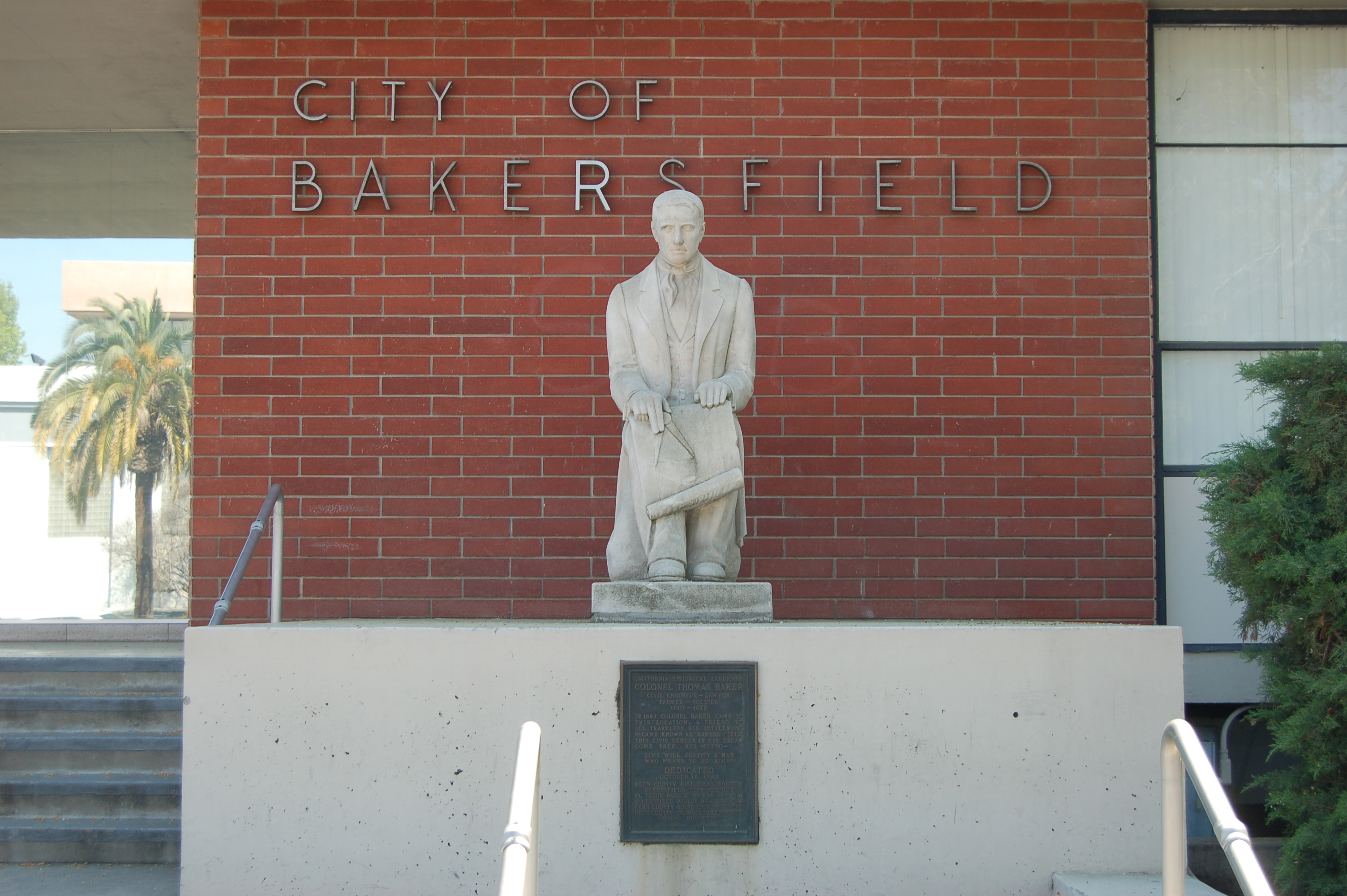 Statue of Colonel Baker, in front of City Hall.